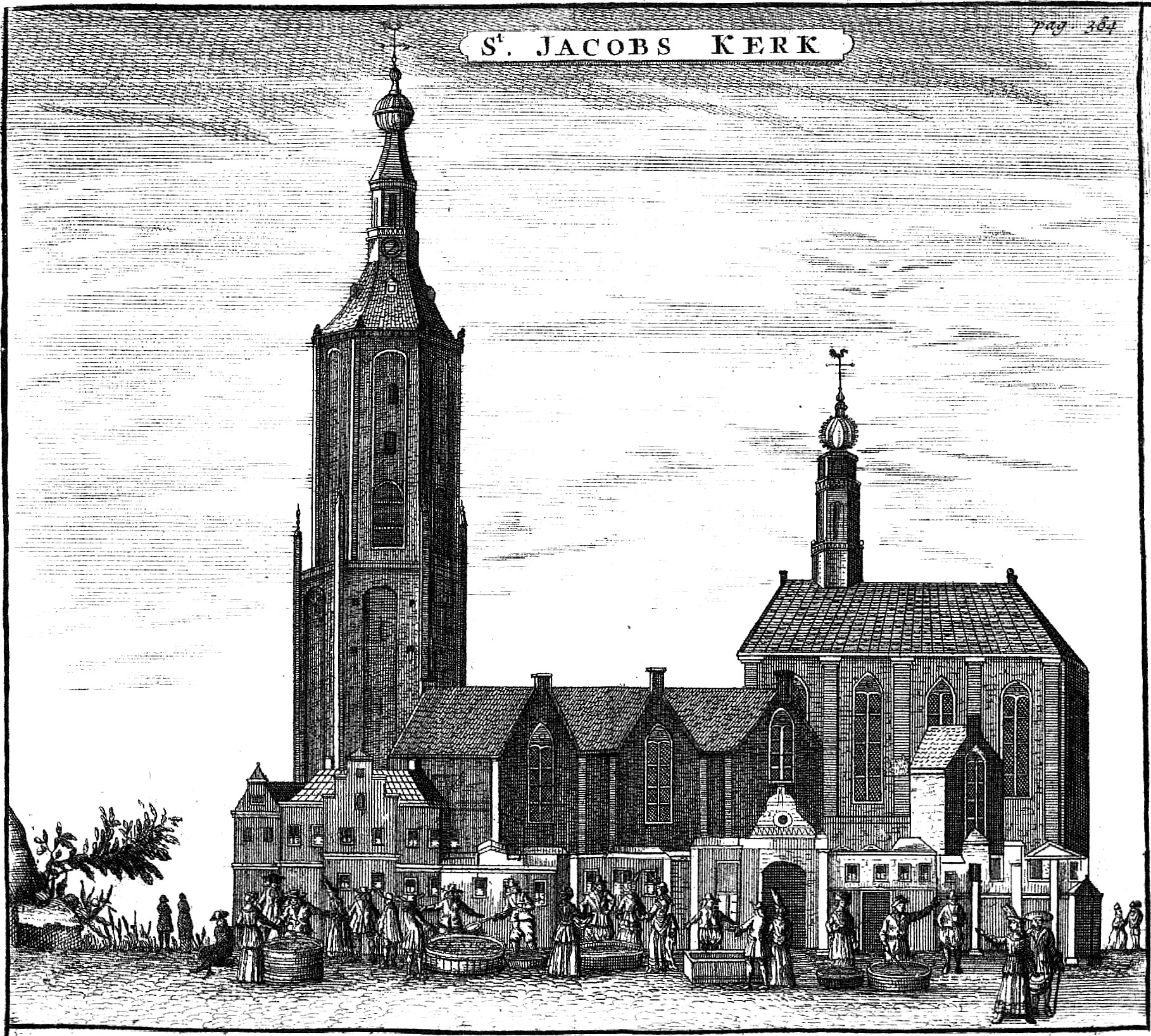 Great or St. Jacob's Church, The Hague